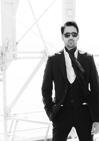 Pictures of Jérôme Ruggiero